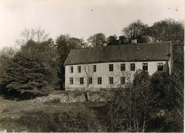 Kärralund seat farm i Örgryte socken, Gothenburg